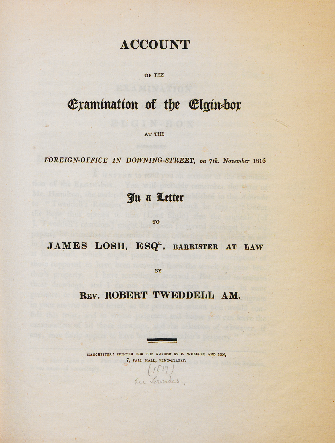 Account of the examination of the Elgin-box - Title page - Tweddell Robert - 1817